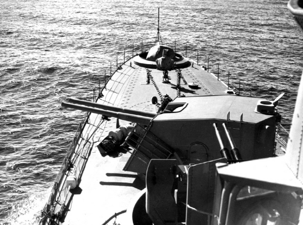 Forward tower on the Swedish destroyer HMS Öland.